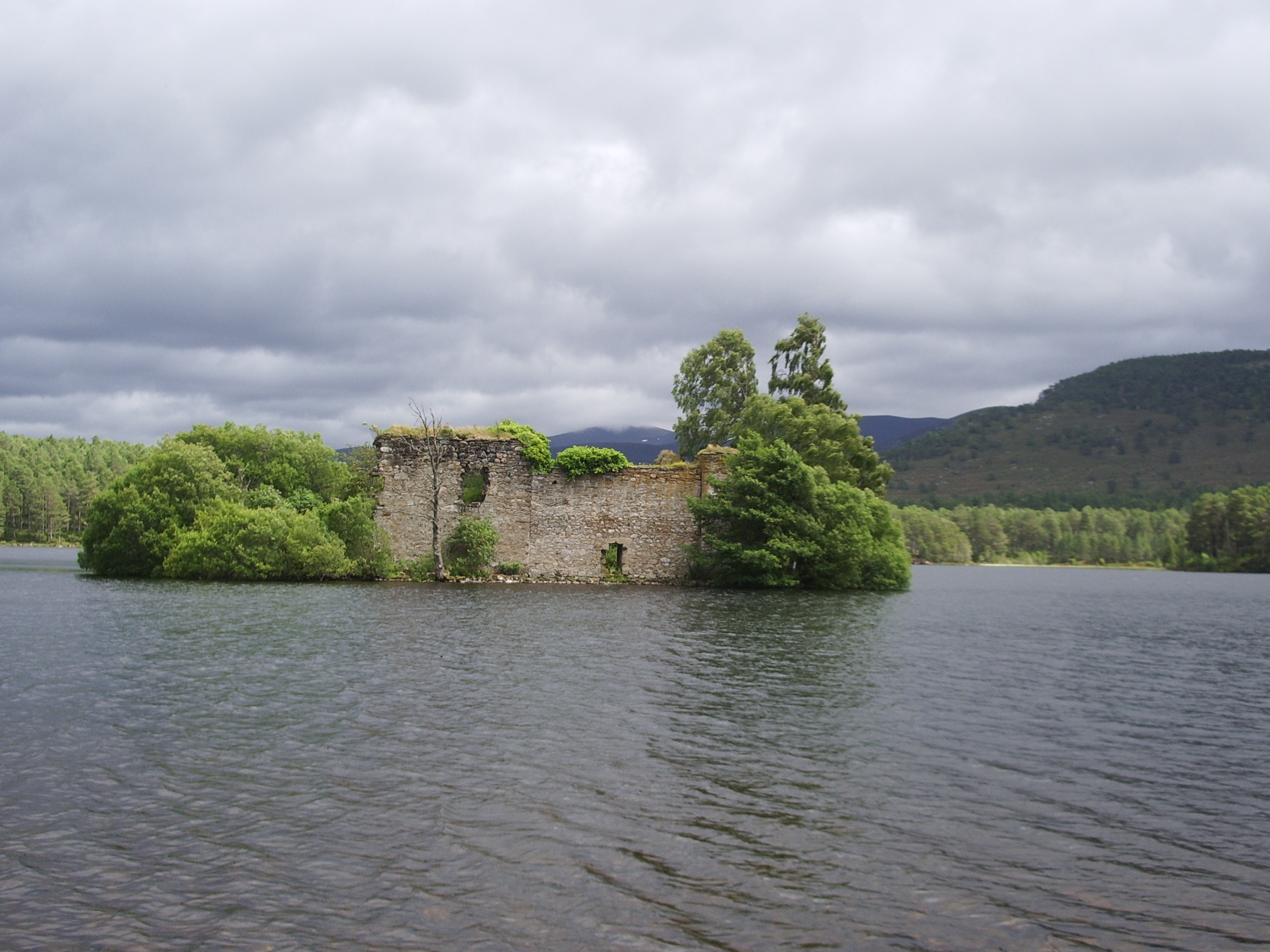 Loch an Eilein Castle, with Cairn Gorm in the background.